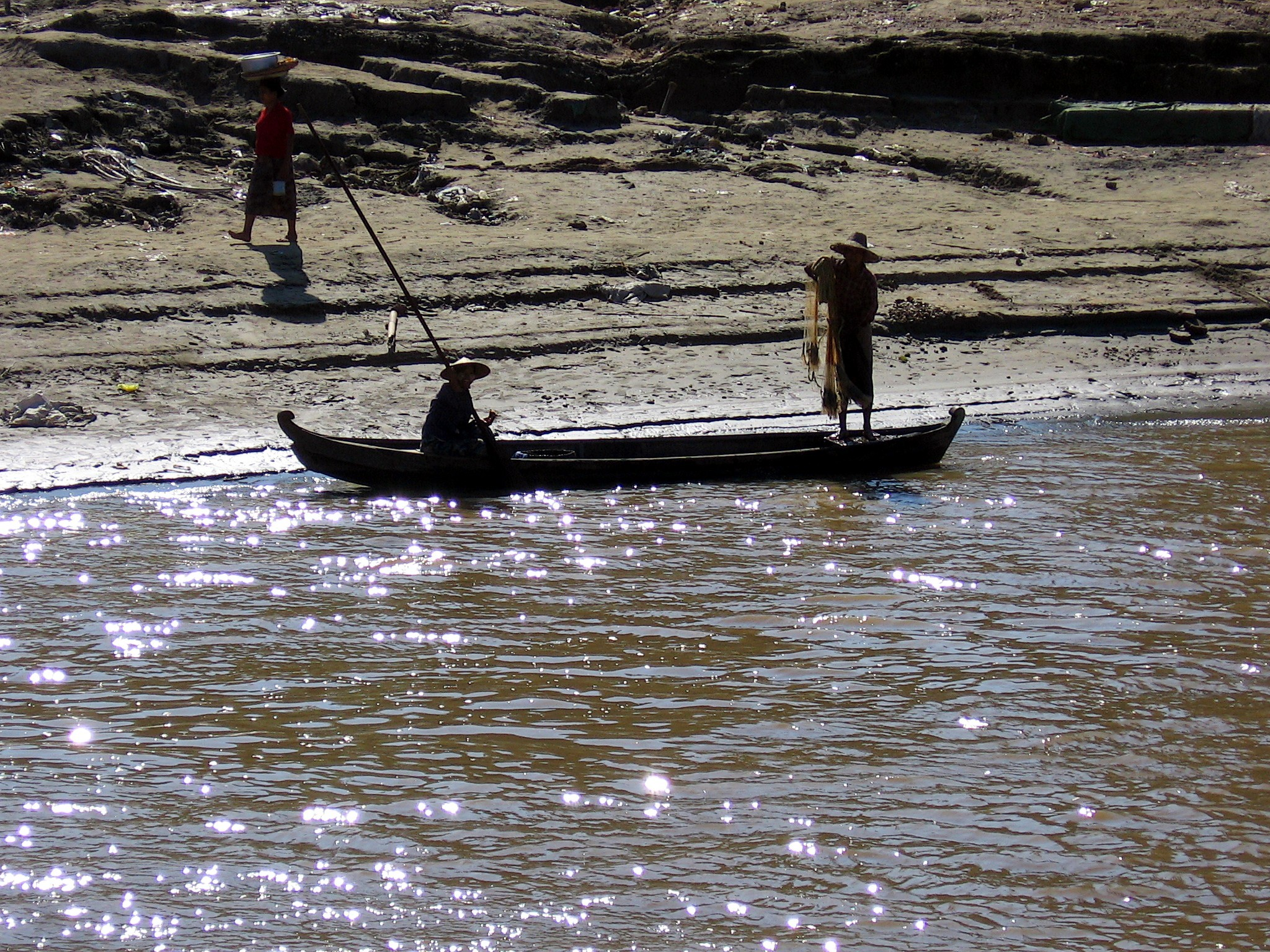 Khata, Myanmar from a boat in Ayeyarwady River.